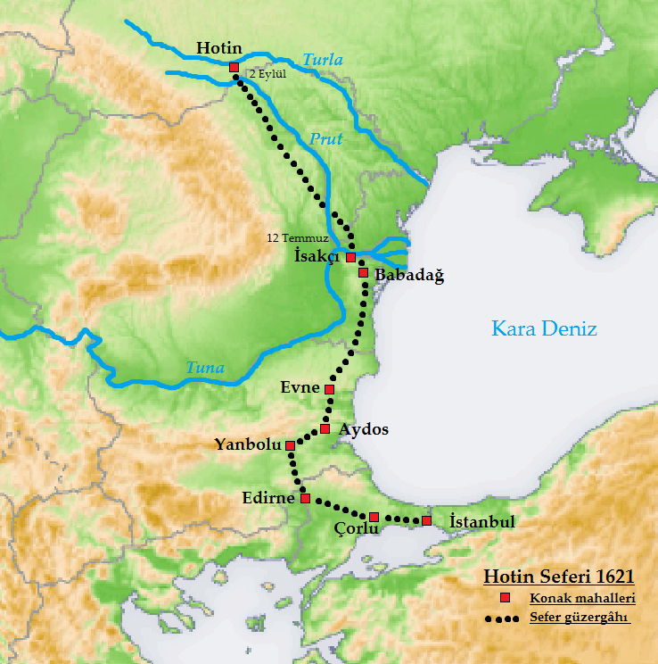 Ottoman campaign of Hotin in 1621.